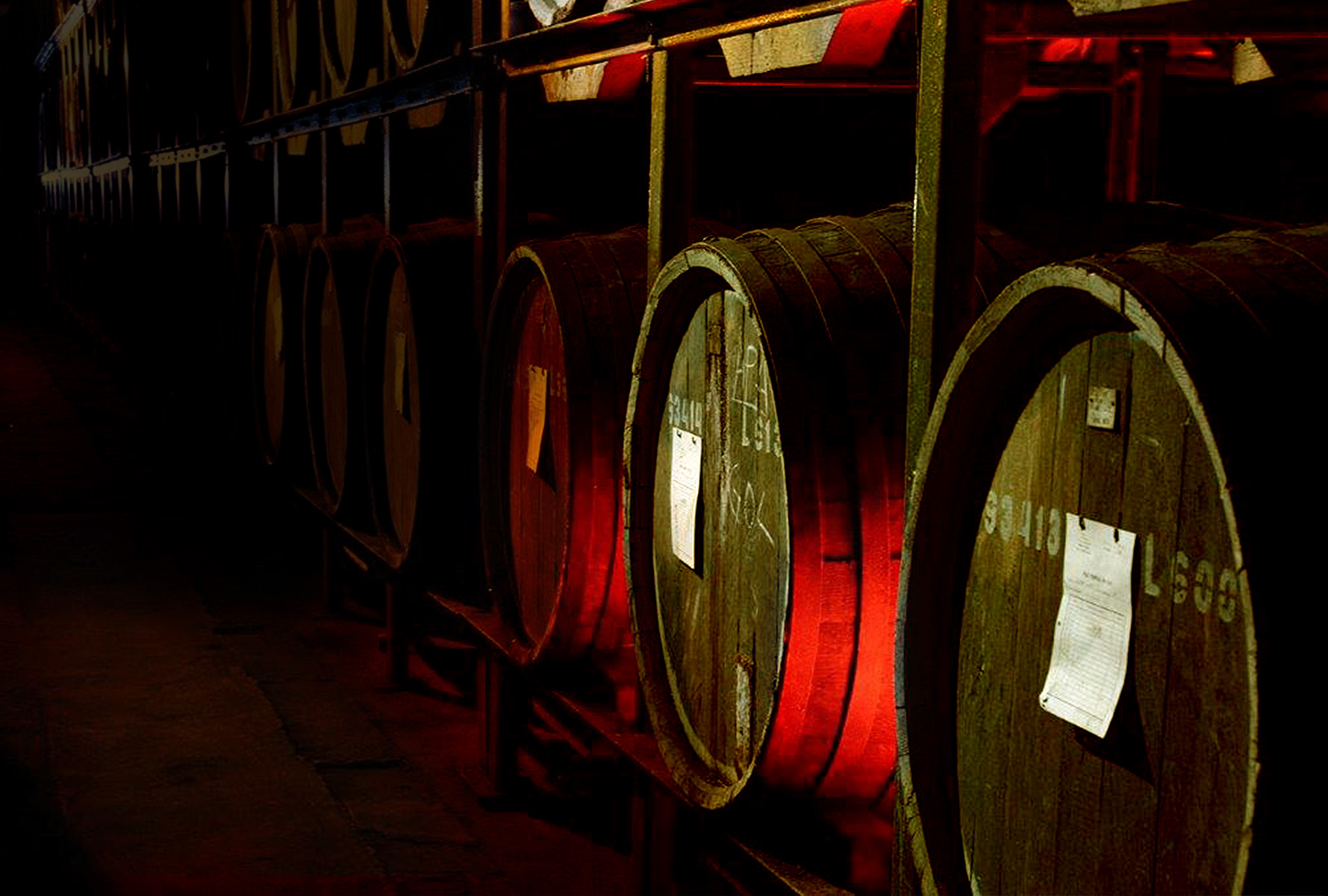 Paradise Cellar, the largest wine distillate cellar in Central and Eastern Europe, Vrancea County, Romania